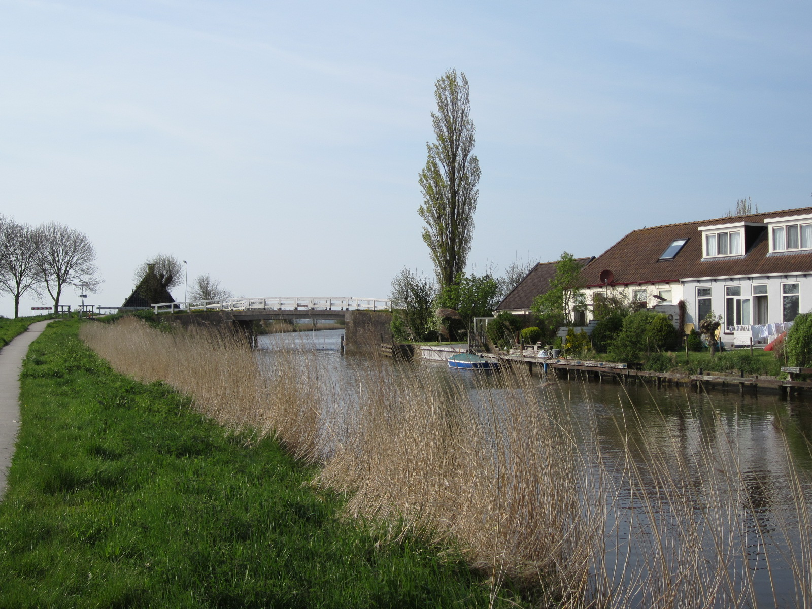 Hamlet Hoptille, county Friesland, The Netherlands. Canal "Bolswardertrekvaart", with bridge and cyclepath.